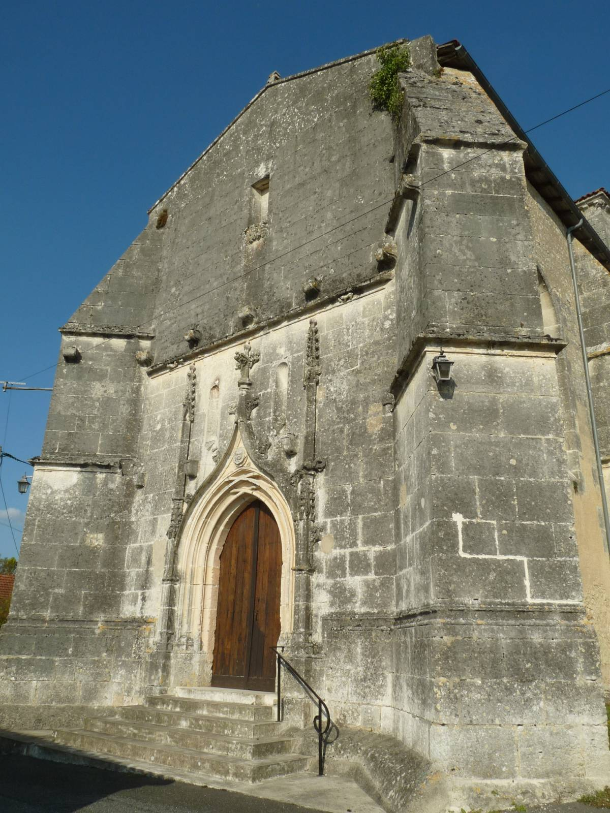 church of Saint-Bonnet, Charente, SW France